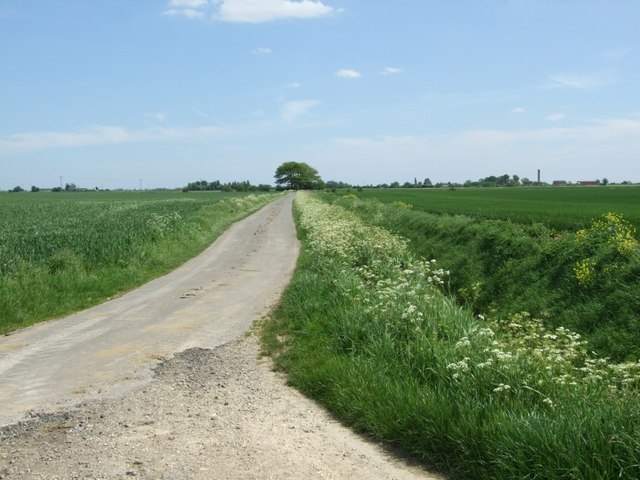 Cowparsley among the Wheat East Fen Lane looking East. In this flat terrain, with such open horizons, all parallel lines such as roadsides have a definite vanishing point. The chimney stack to the right hand side is the Lade Bank pumping station, which lies to the Northeast side of the Hobhole Drain.